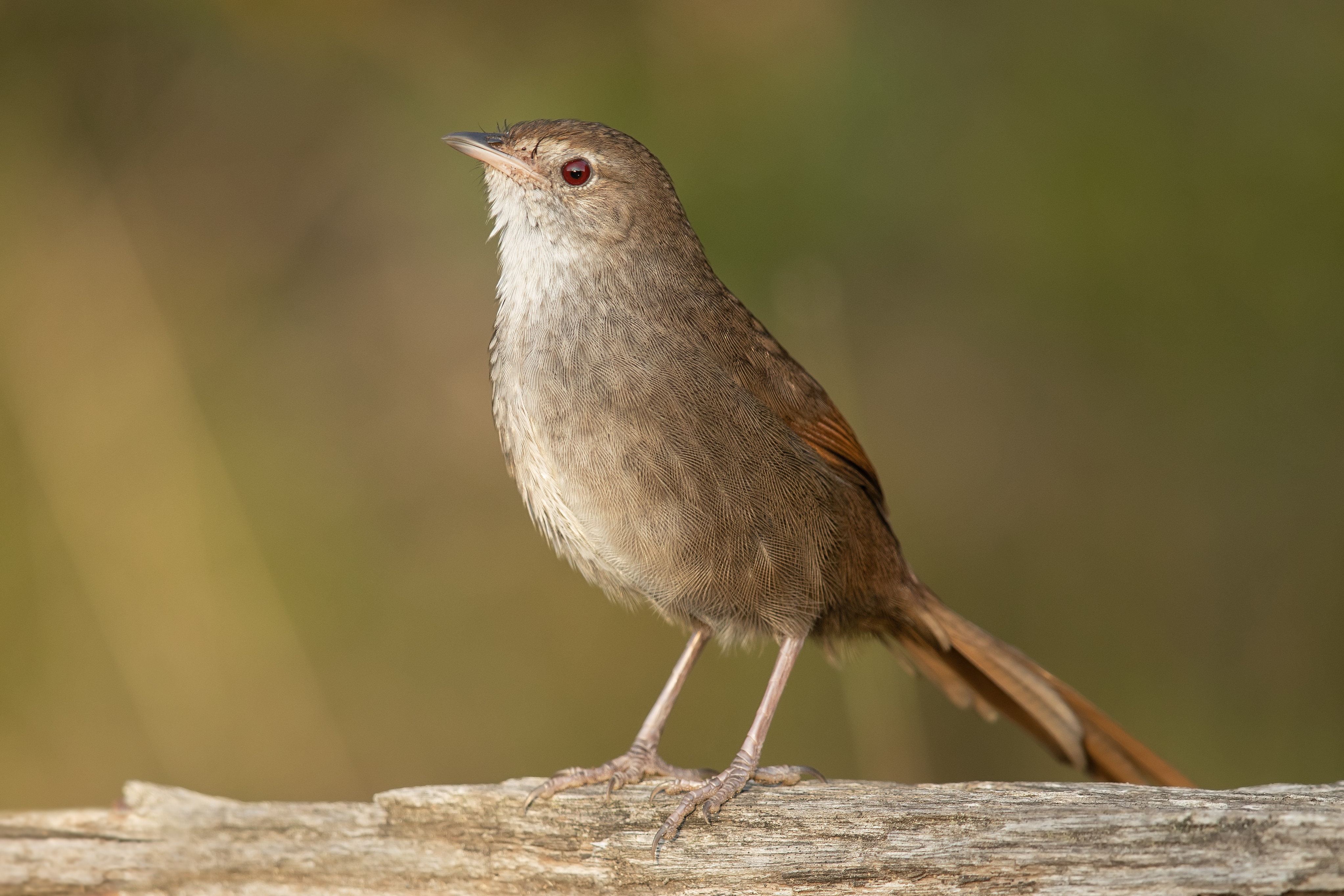 Eastern bristlebird (Dasyornis brachypterus). Currarong, New South Wales, Australia